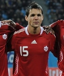 Josh Simpson with Canada national team vs. Ukraine in 2010.